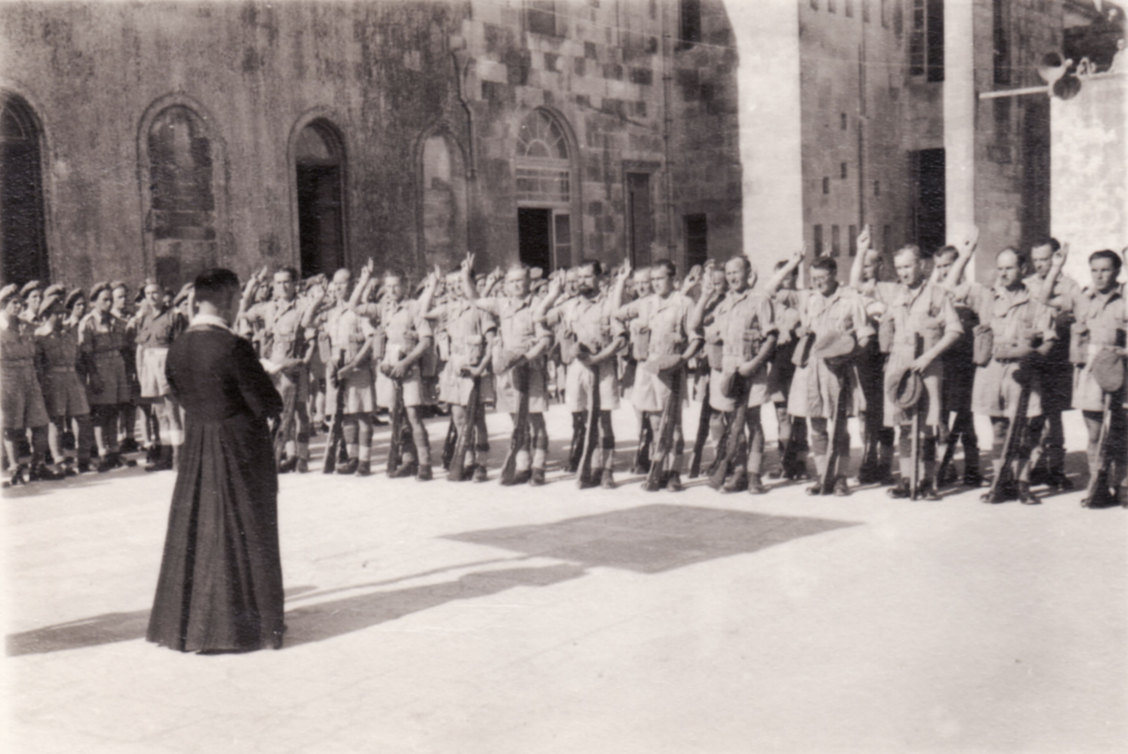 Polish II Corps: Bishop Józef Gawlina during visit to Salento, Italy, oversees swearing in ceremony of the students old enough to join the army.